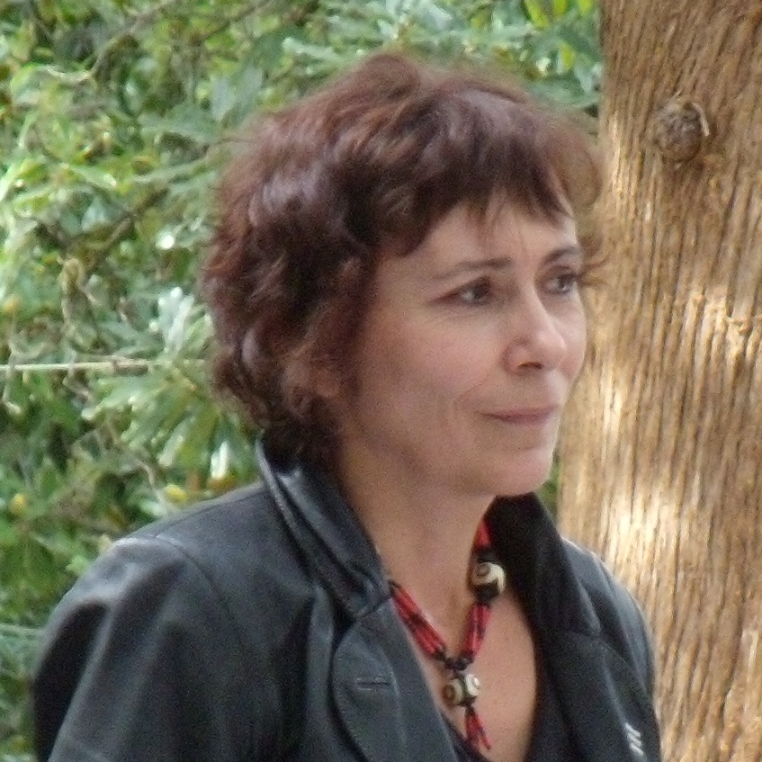 Marie-Monique Robin during the Fête de la fraternité at Montpellier in september 2009.